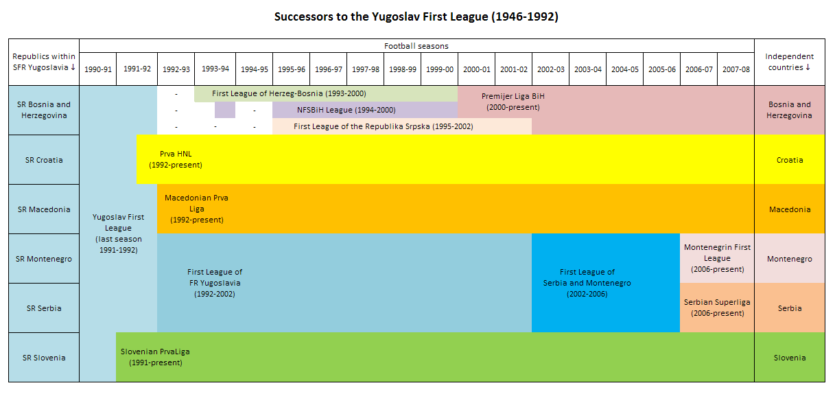 Chart showing the timeline of football leagues created after the dissolution of SFR Yugoslavia and its Yugoslav First League.